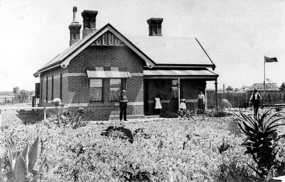 Truganina Explosives Reserve, Keeper's Residence, circa 1915. Members of the Grant family standing in front of the residence. Keeper Donald (Dan) Grant at left, his wife Alice Matilda Great at right, on verandah